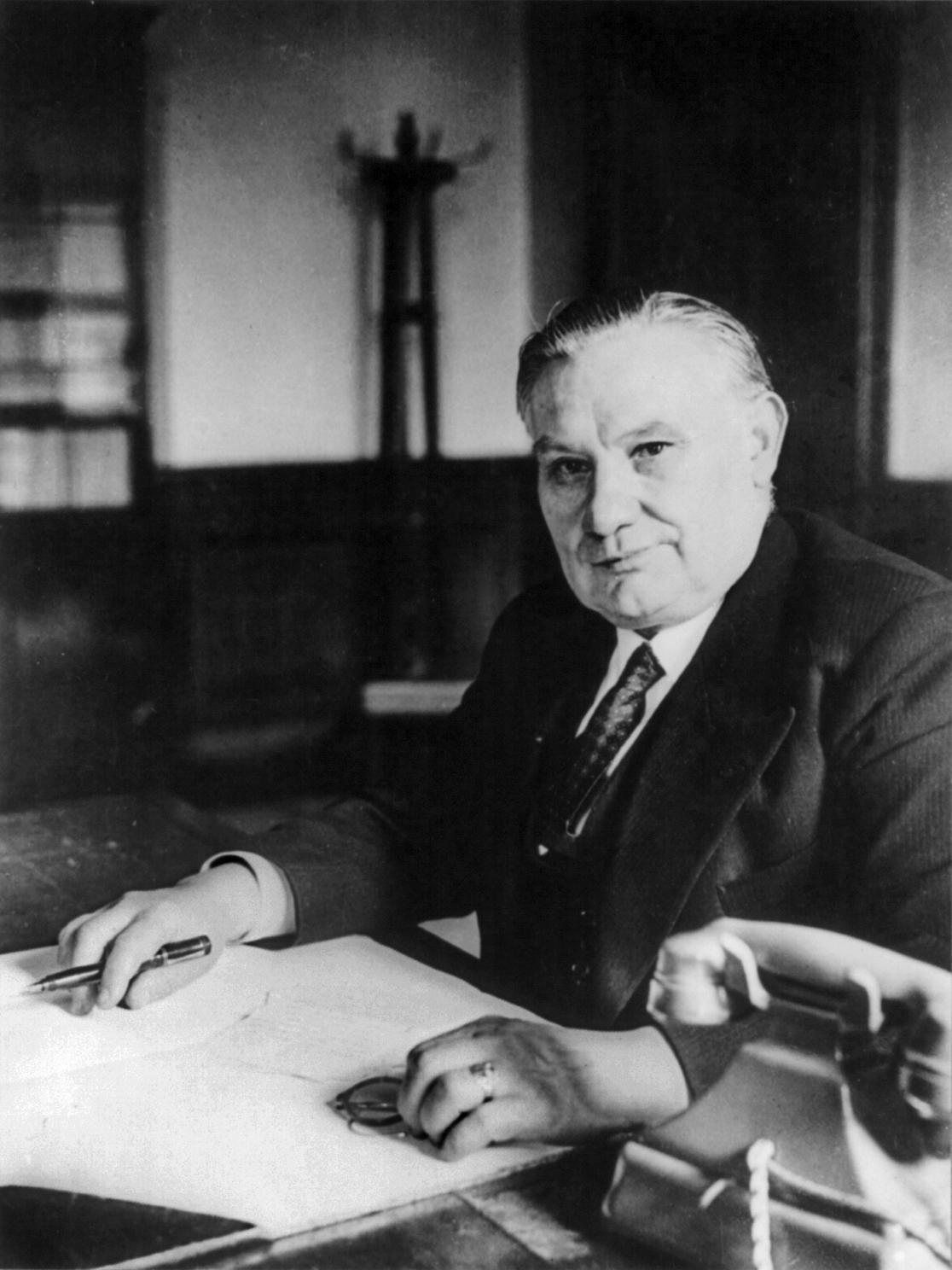 Ernest Bevin, British Labour politician